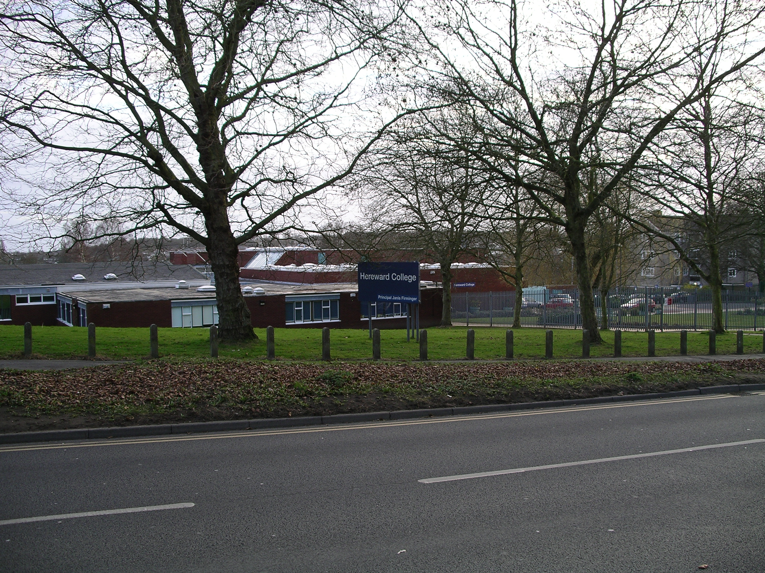 Hereward College, Coventry, England.